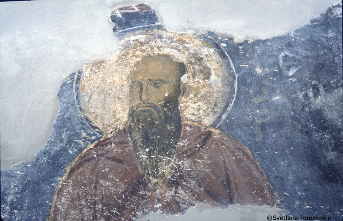 Fresco at Studenica, Serbia, with Saint Theodorus Graptos, monk